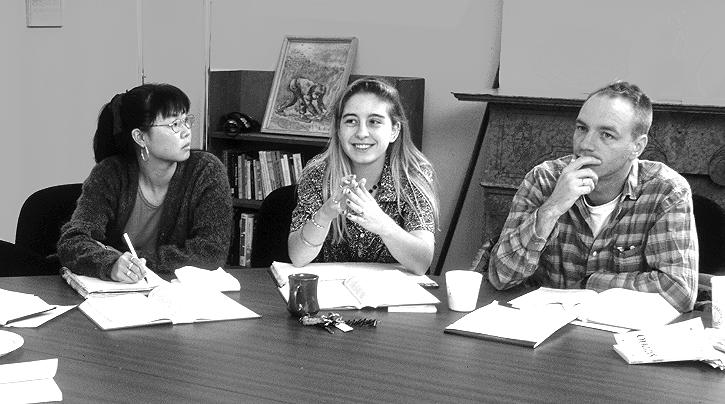 Students at Shimer College participating in a discussion of selections from the New Oxford Annotated Bible and Mary Barnard's translation of Sappho in fall 1994, as part of the Integrated Studies 5 senior seminar on the history of ideas.